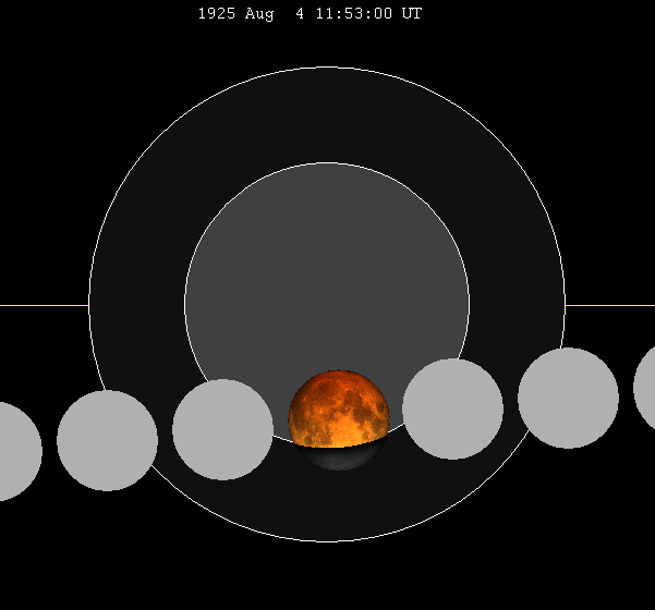 lunar eclipse chart of moon's path through the earth's shadow. thumb